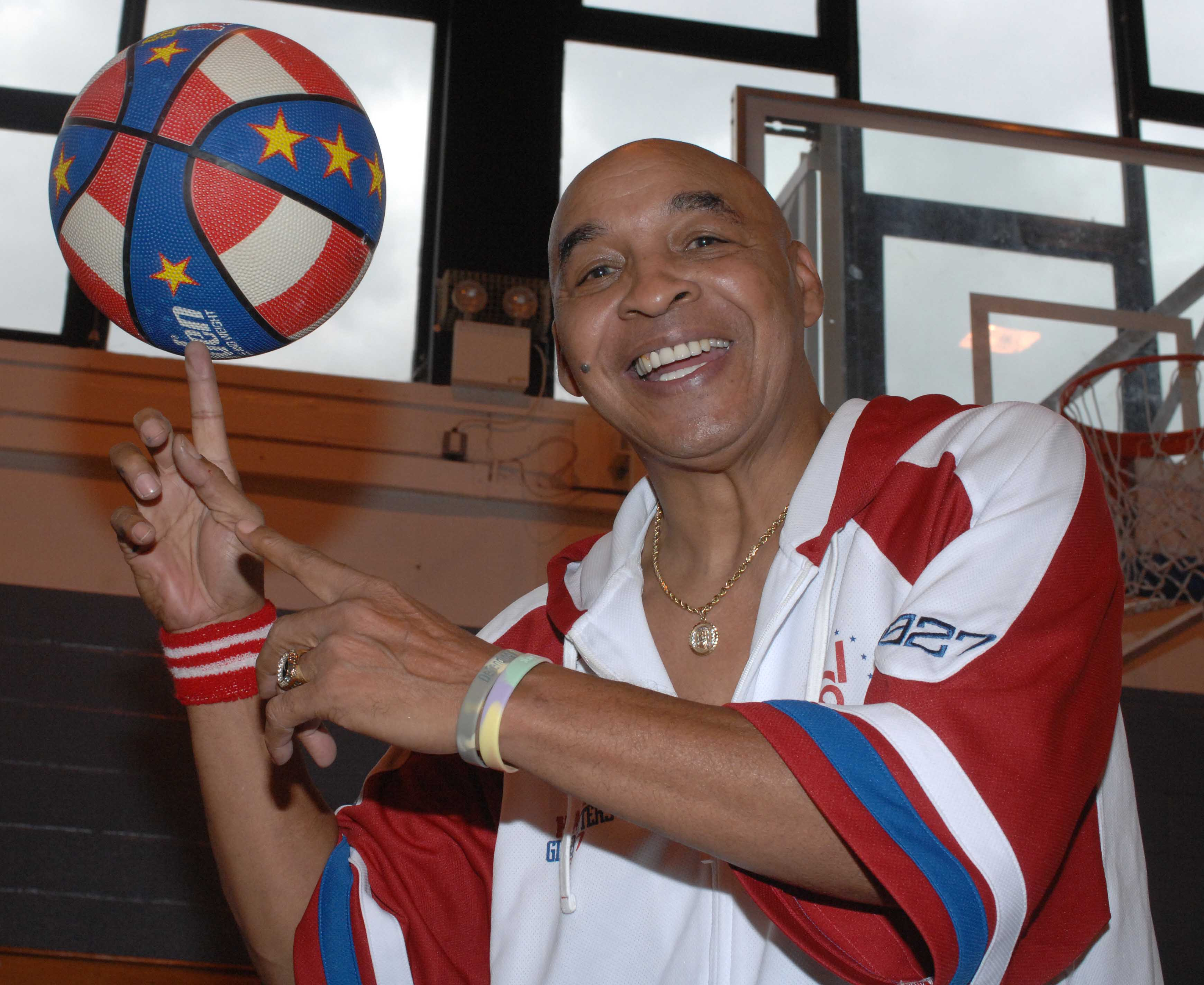 Harlem globetrotter’s legend Mr. Curley Neal shows some moves for the troops in RAF Mildenhall. On his extreme summer tour trough USAFE. Mr.Curly was a Harlem Globetrotters superstar through the 70s and 80s and was known as Fred "Curly" Neal. (U.S Air Force photo by Airman First Class Brad Smith)